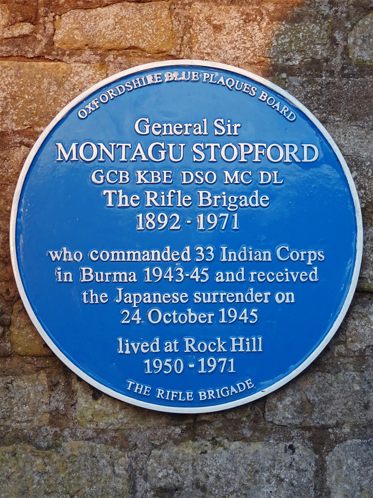 Plaque commemorating General Sir Montagu Stopford at Rock Hill, Chipping Norton, Oxfordshire OX7 5BA. Erected by the Oxfordshire Blue Plaques Board and The Rifle Brigade 8th July 2008 "General Sir Montagu Stopford GCB KBE DSO MC DL The Rifle Brigade 1892-1971 who commanded 33 Indian Corps in Burma 1943-45 and received the Japanese surrender on 24 October 1945 lived at Rock Hill 1950-1971"